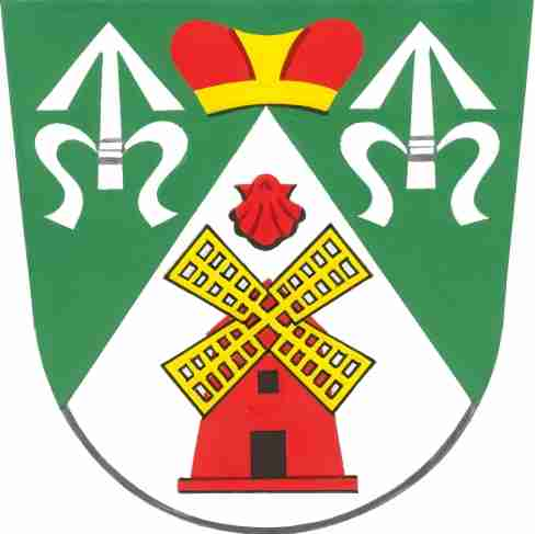 Municipal coat of arms of Ruprechtov village, Vyškov District, Czech Republic.